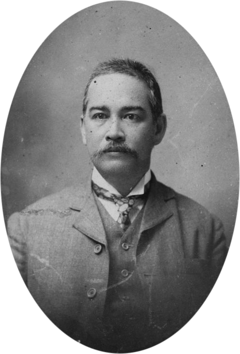 Toney Afong. Photograph by James J. Williams.